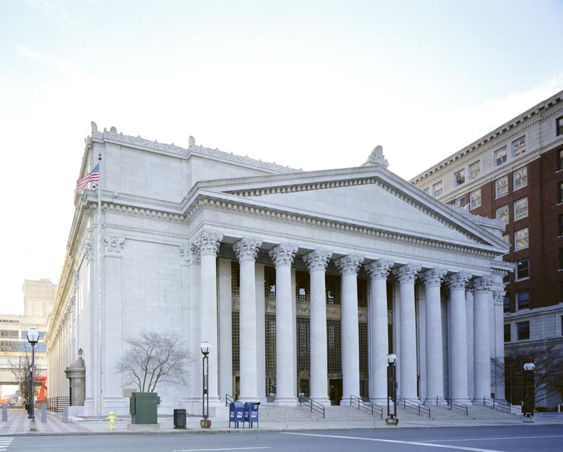 U.S. District Court for the District of Connecticut in 1995. New Haven, CT.